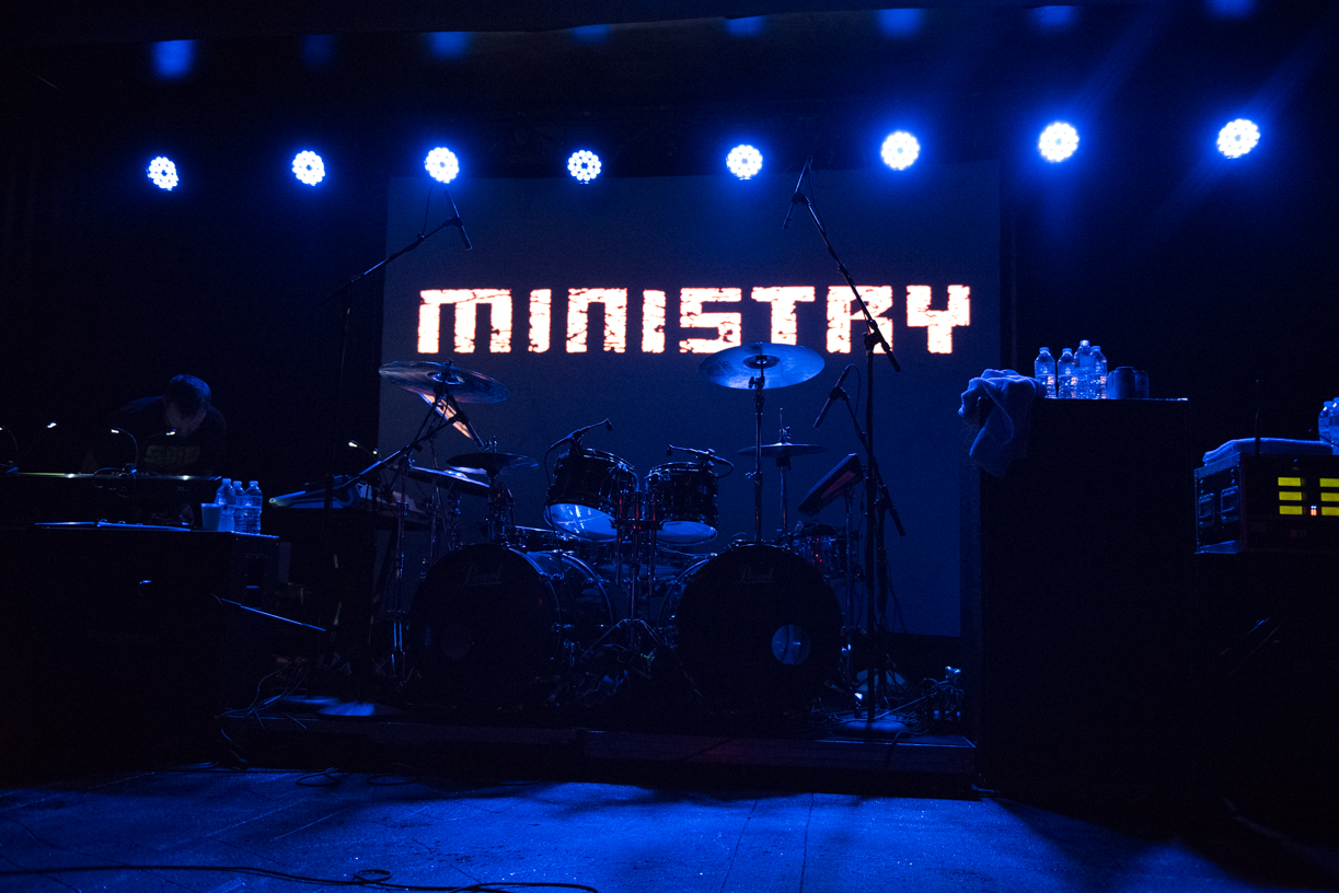 Ministry-at-Freemont-Country-Club-Vegas-05-26-16-27